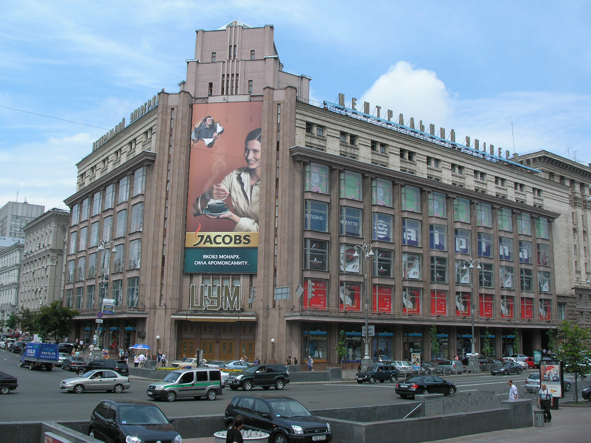 The Central Department Store (TsUM) on the Khreschatyk street in Kiev.